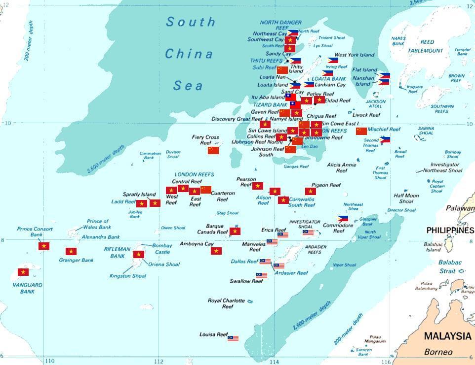 Spratly islands map showing occupied features marked with the flags of countries occupying them. Philippines Republic of China (Taiwan) Vietnam Malaysia People's Republic of China The flags are placed such that no text and other flag is overlapped. Hence, some flags are not in the exact coordinates where they should actually lie. However, they still portray the general picture on how Spratly Islands are divided among claimant nations. All occupied features are placed with flags, including those which are not labeled in the map. Here are all unlabeled features: Ban Than Reef (T) The flag below the flag for Itu Aba Island (T). Higgens Reef (V) The flag sandwiched between the flags for Sin Cowe Island (V) and Landsowne Reef (V). Whitson Reef (C) The flag nearest Chigua Reef label. Based on coordinates of Whitson Reef which is 10°00'N 114°43'E, it should lie there. Kennan Reef (C) The flag nearest the flag for Johnson South Reef (C).